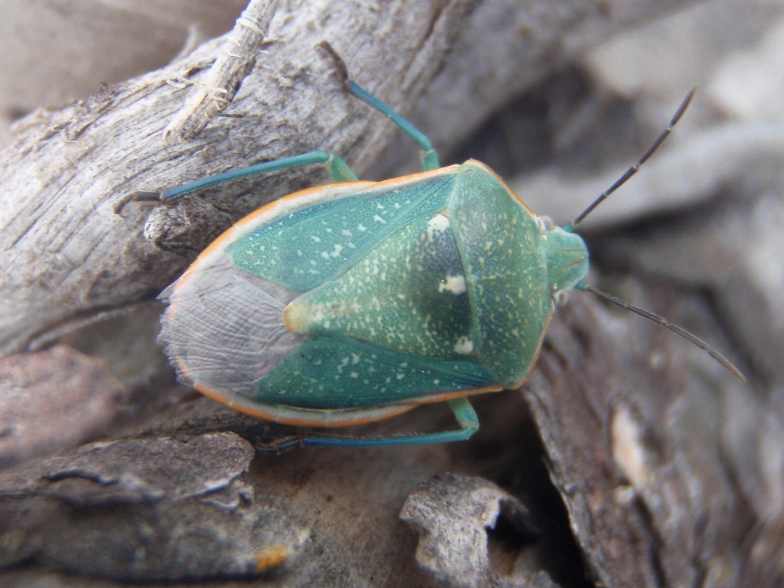 Say Stink Bug, Chlorochroa sayi; Pentatomidae, green beetle, pretty bug in Yellowstone National Park